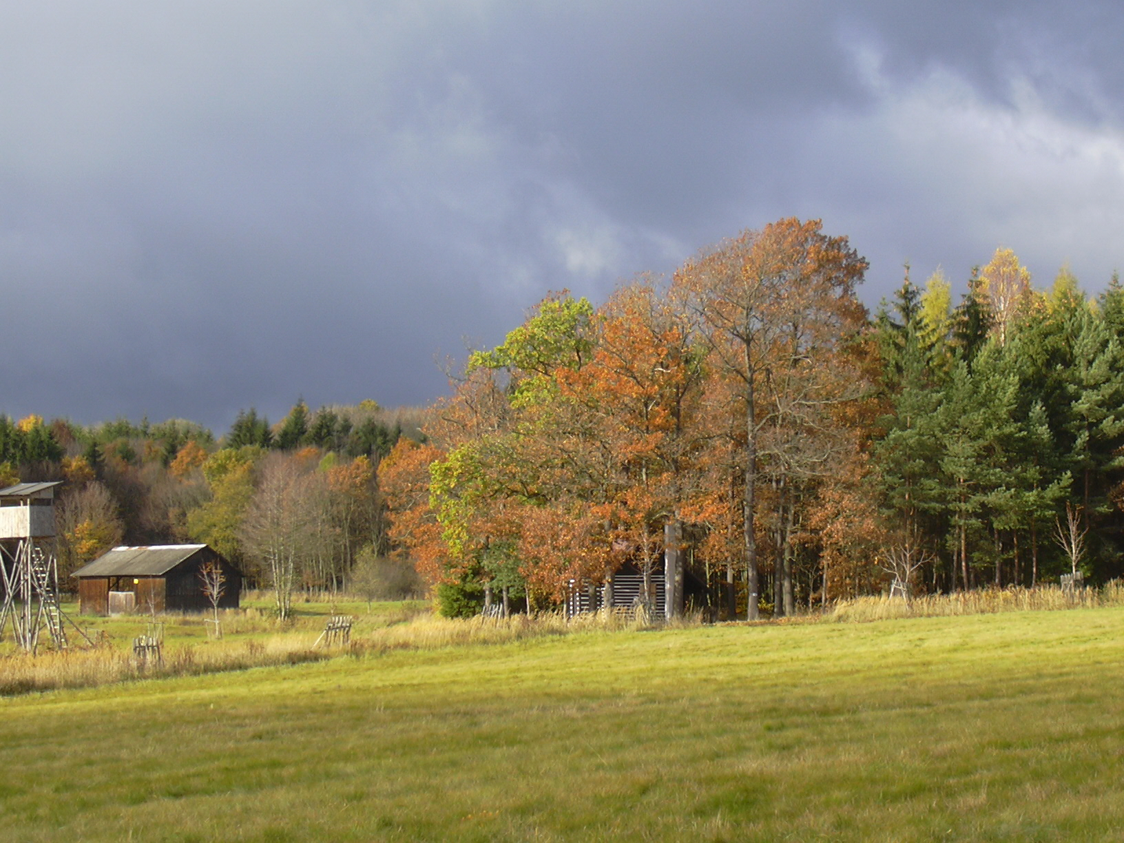 Deer-stand on a meadow near Kublov, encircled by the Křivoklát forest